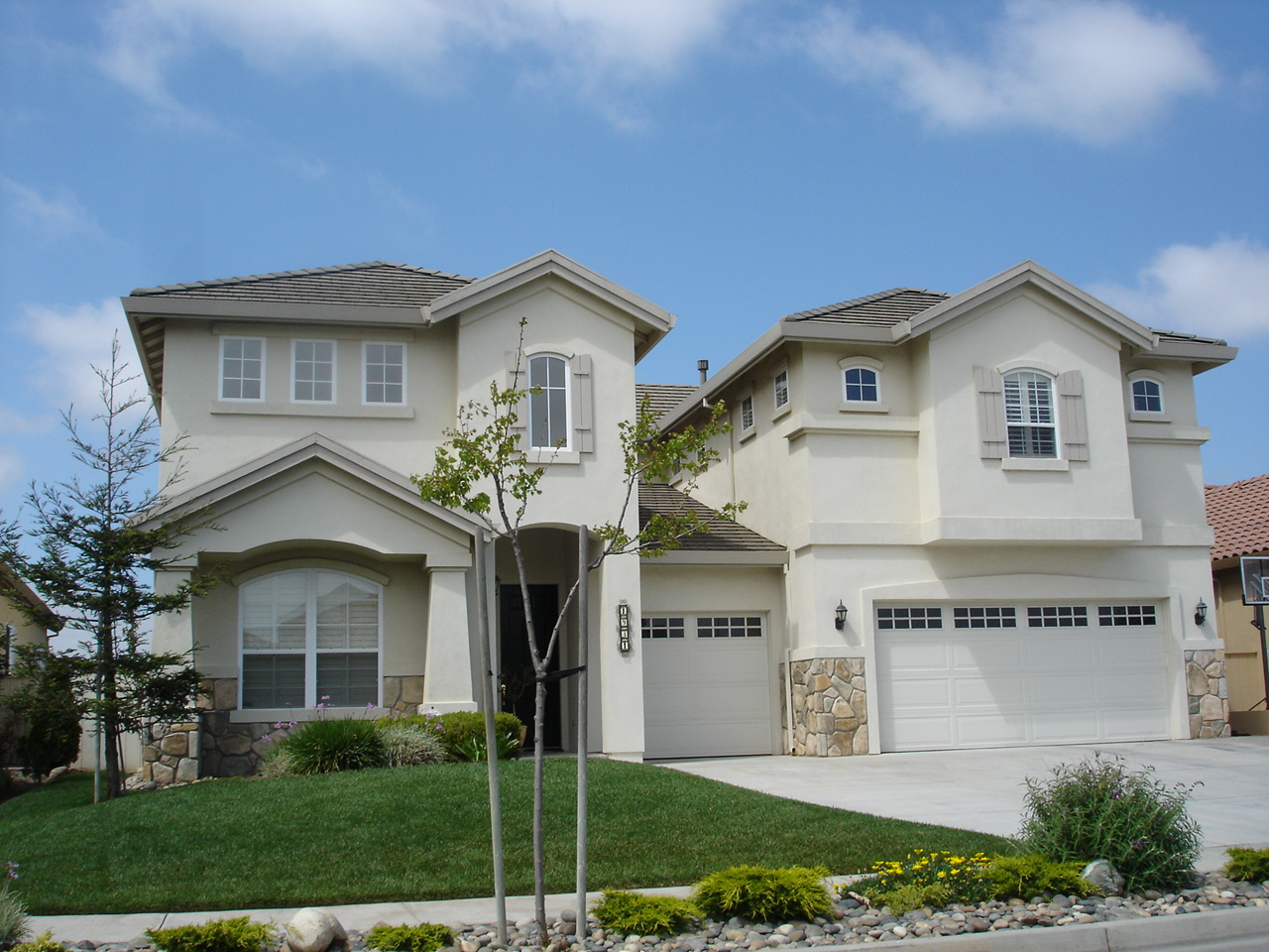 Suburban tract house in California